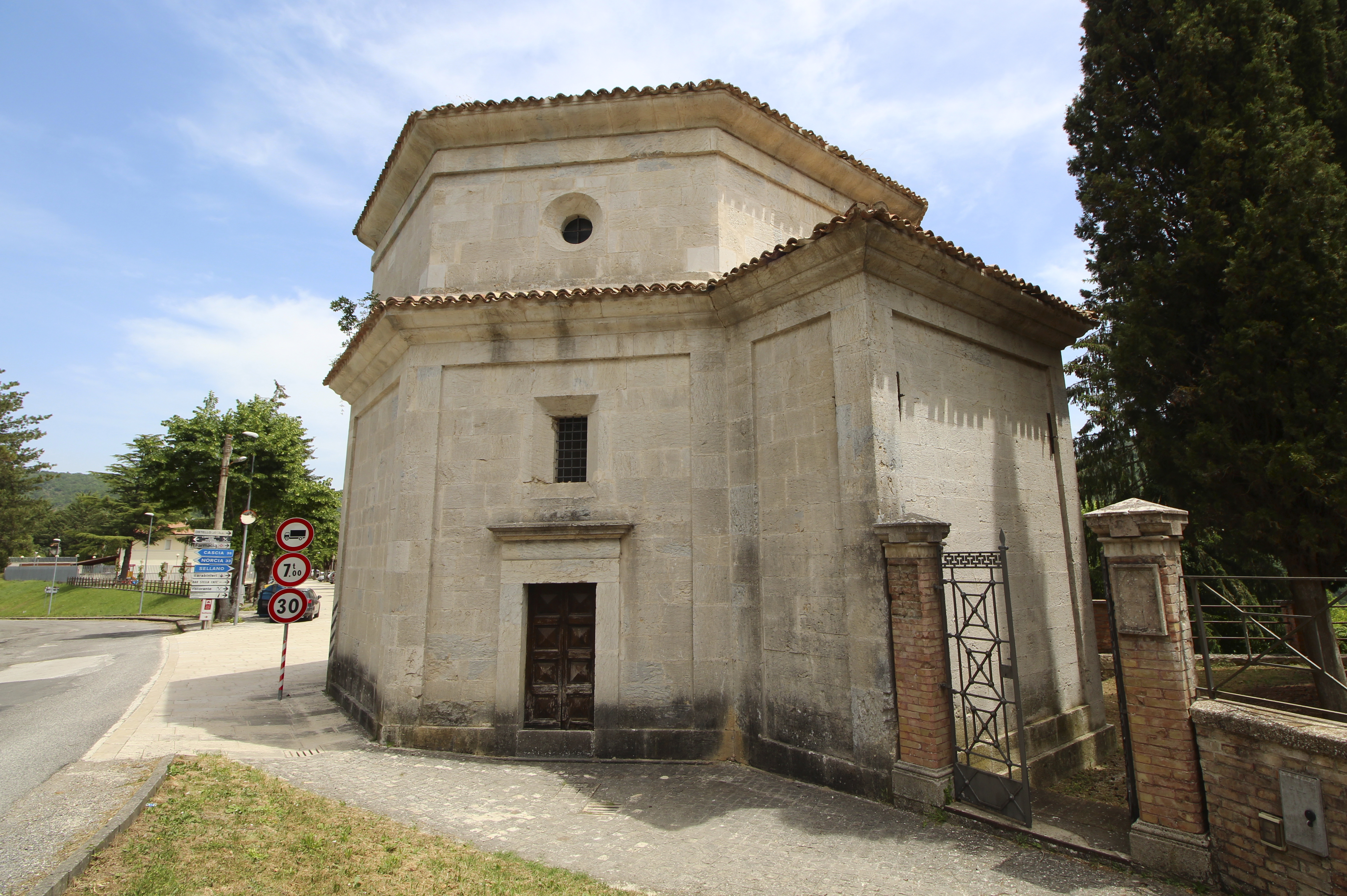 church San Francesco, Sellano, Province of Perugia, Umbria, Italy